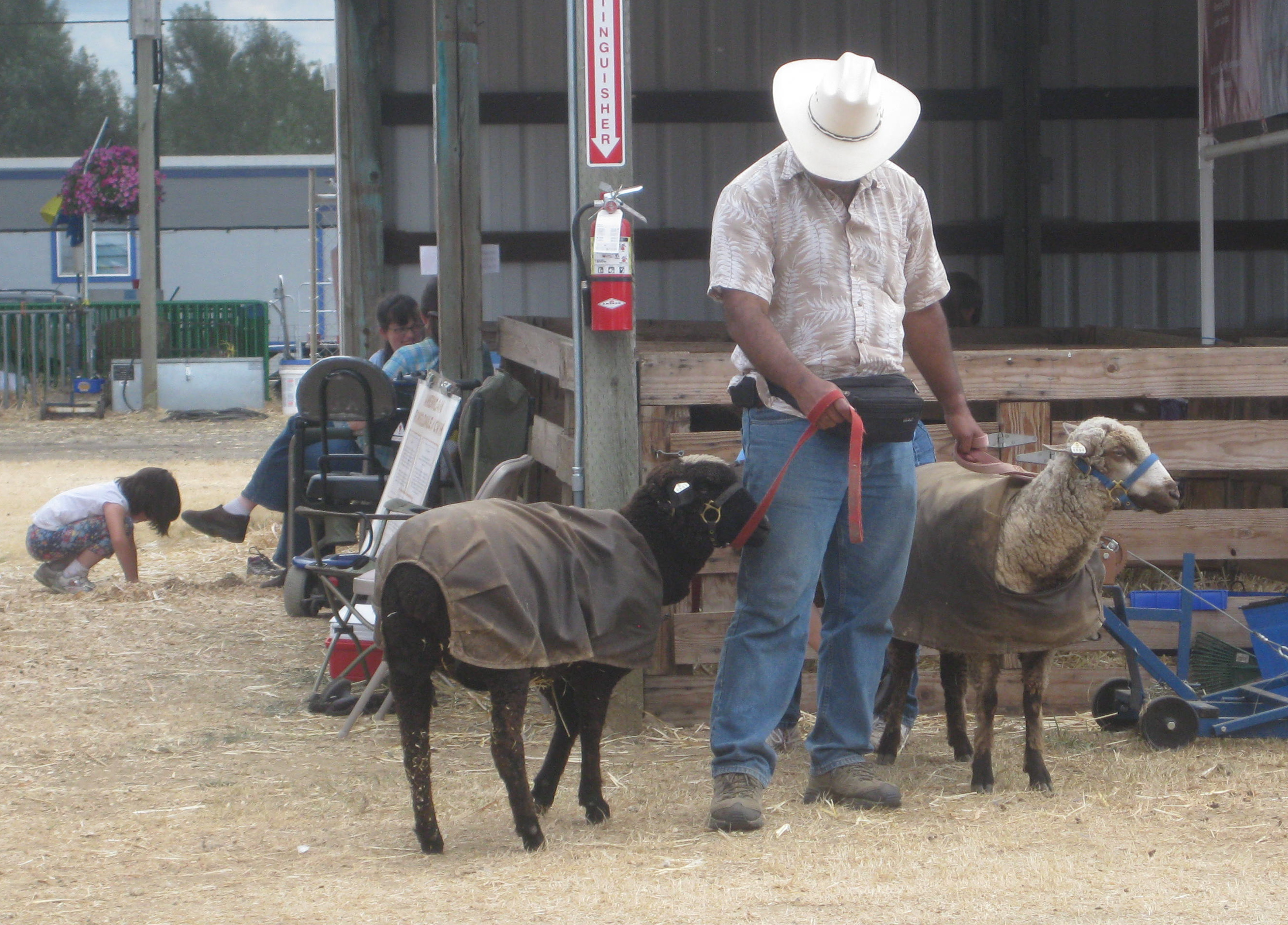 A pair of Romeldale/CVM sheep and their handler at a fair in Washington